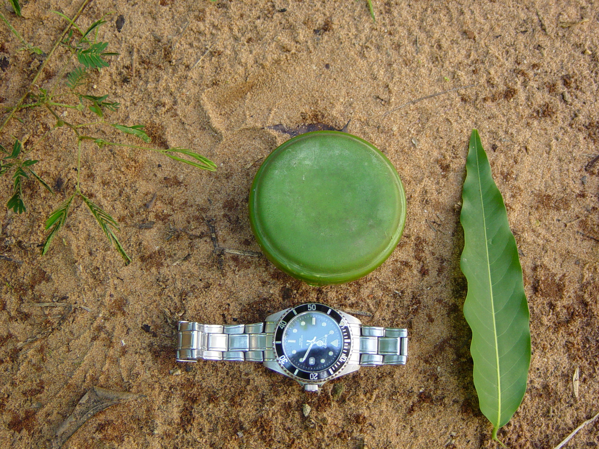 This is the photo of Chinese type72 mine used in Sri Lanka. Wrist watch is to compare the size only.